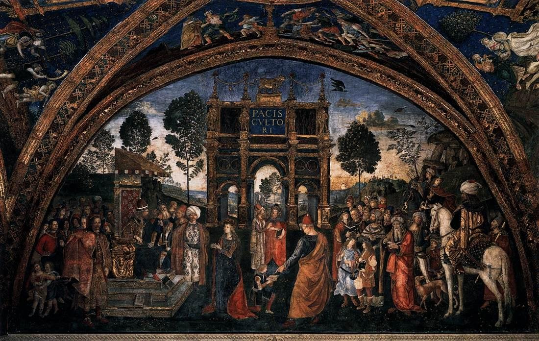 St Catherine's Disputation / 2nd Room: Hall of the Saints (Sala dei Santi) The Borgia Apartments (Appartamento Borgia) On the rear wall, Lucrezia is painted as St. Catherine of Alexandria facing 50 opponents.